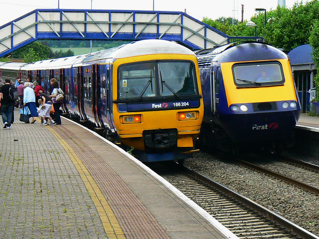 Trains at Hungerford Station, near to Hungerford, West Berkshire, Great Britain. Travellers are alighting from the small train on the left. As it's a Saturday they may be returning from London after a day out shopping. The other train is going very fast towards London. NOTE. This image has a detailed �shared description� which you won�t see by viewing this image on a slideshow. To read it click on the image.